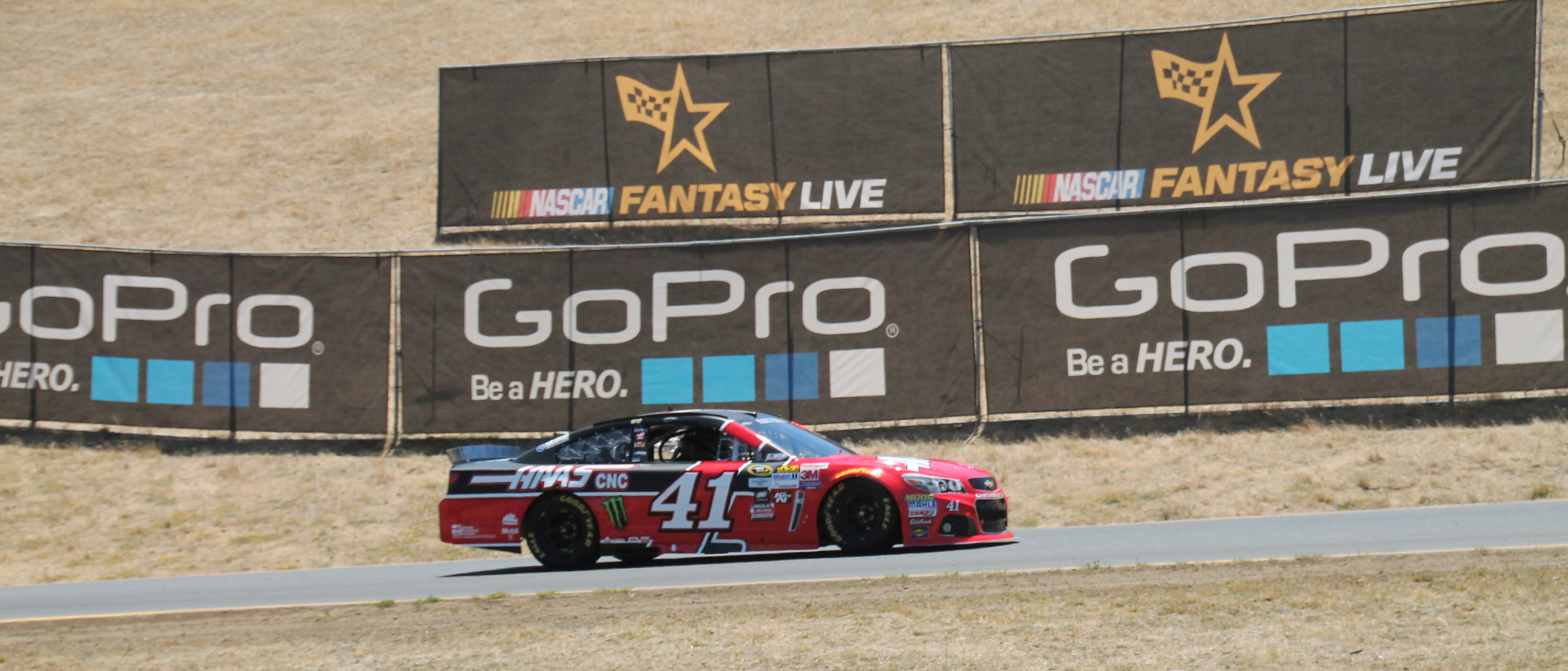 Kurt Busch racing during the 2015 Toyota/Save Mart 350, Sonoma, California